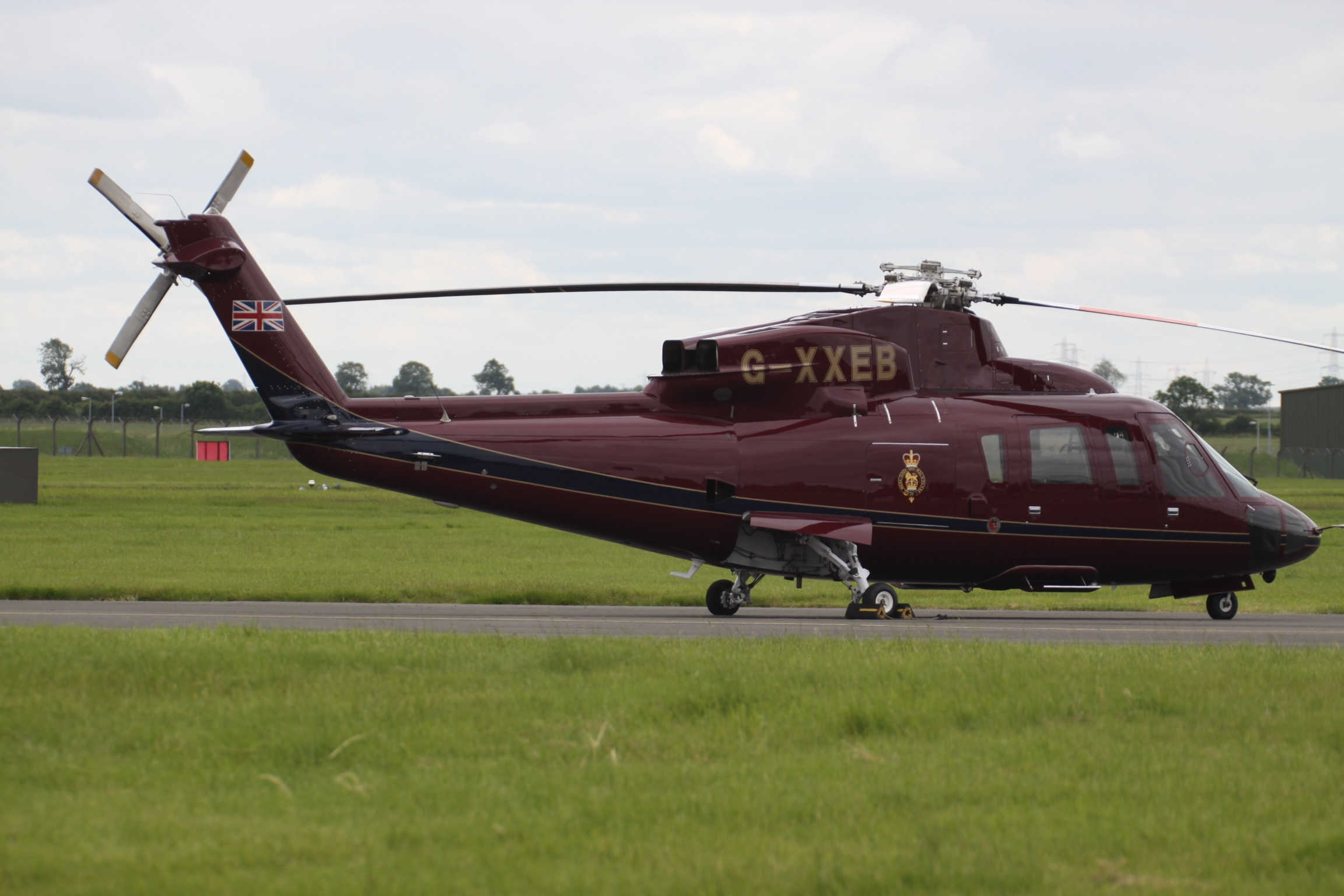 At RAF Waddington